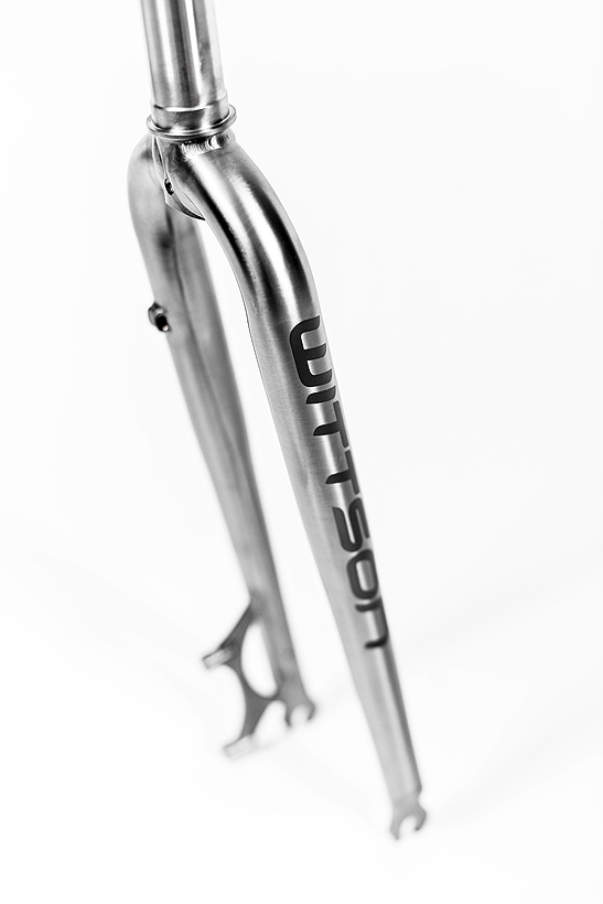 Wittson Ele